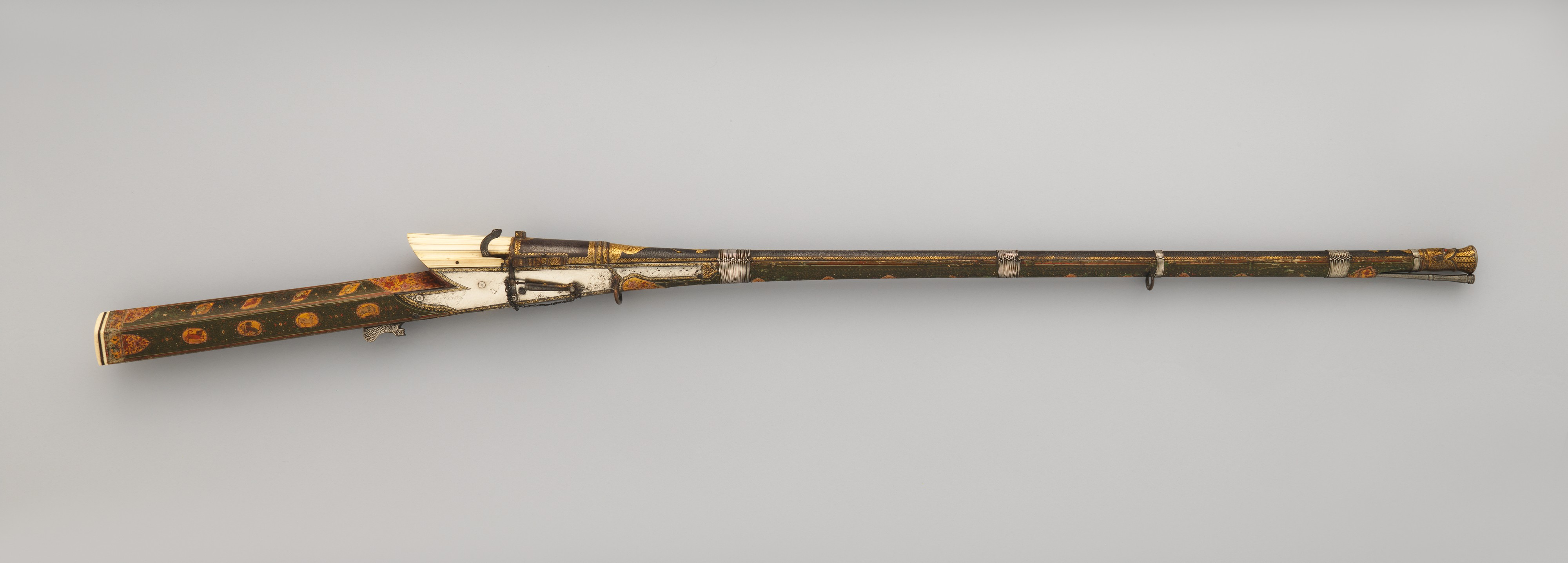 Indian, Rajasthan, possibly Gwalior; Matchlock gun; Firearms-Guns-Matchlock